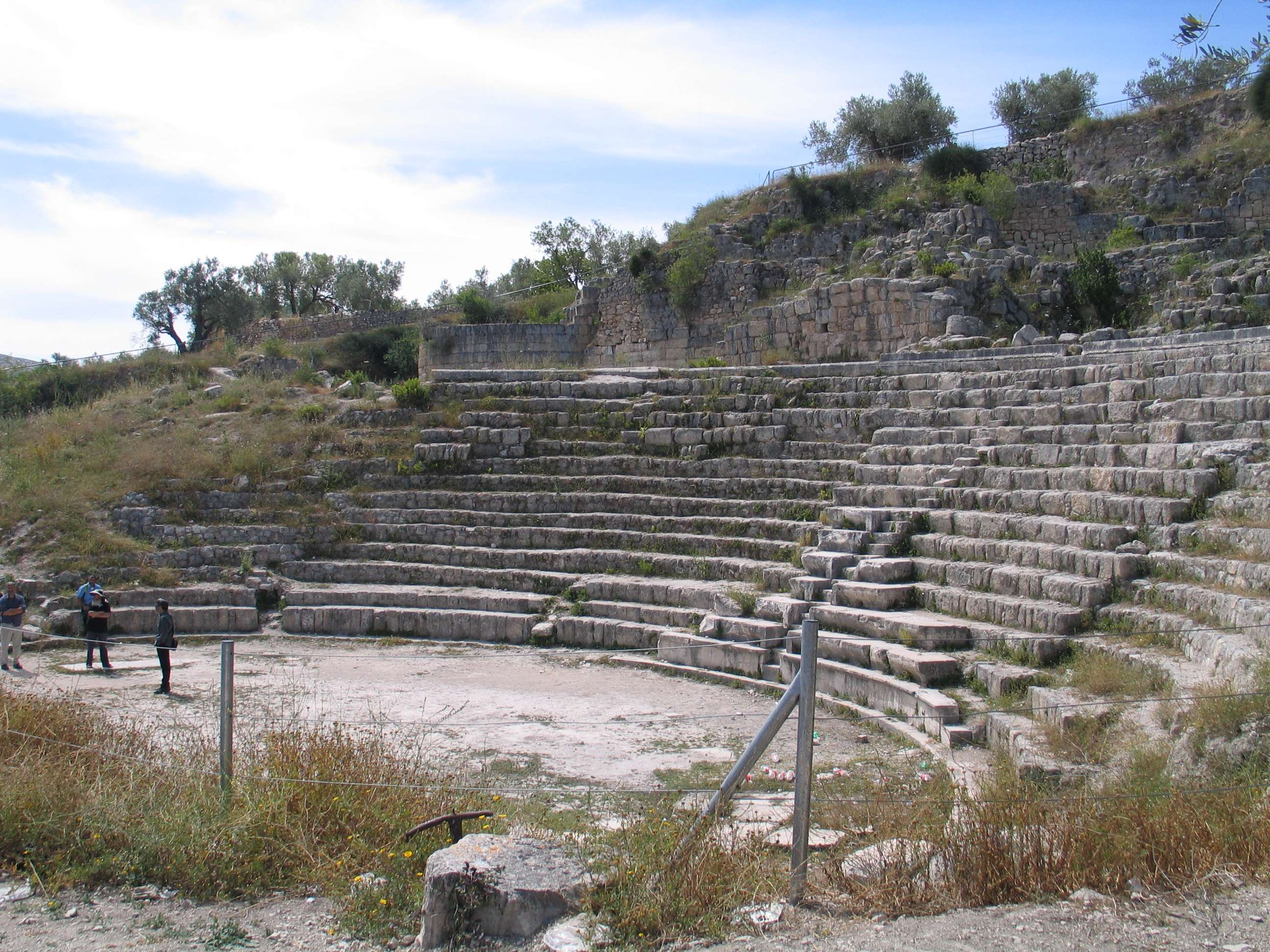 Shomron National Park (Sebastia).